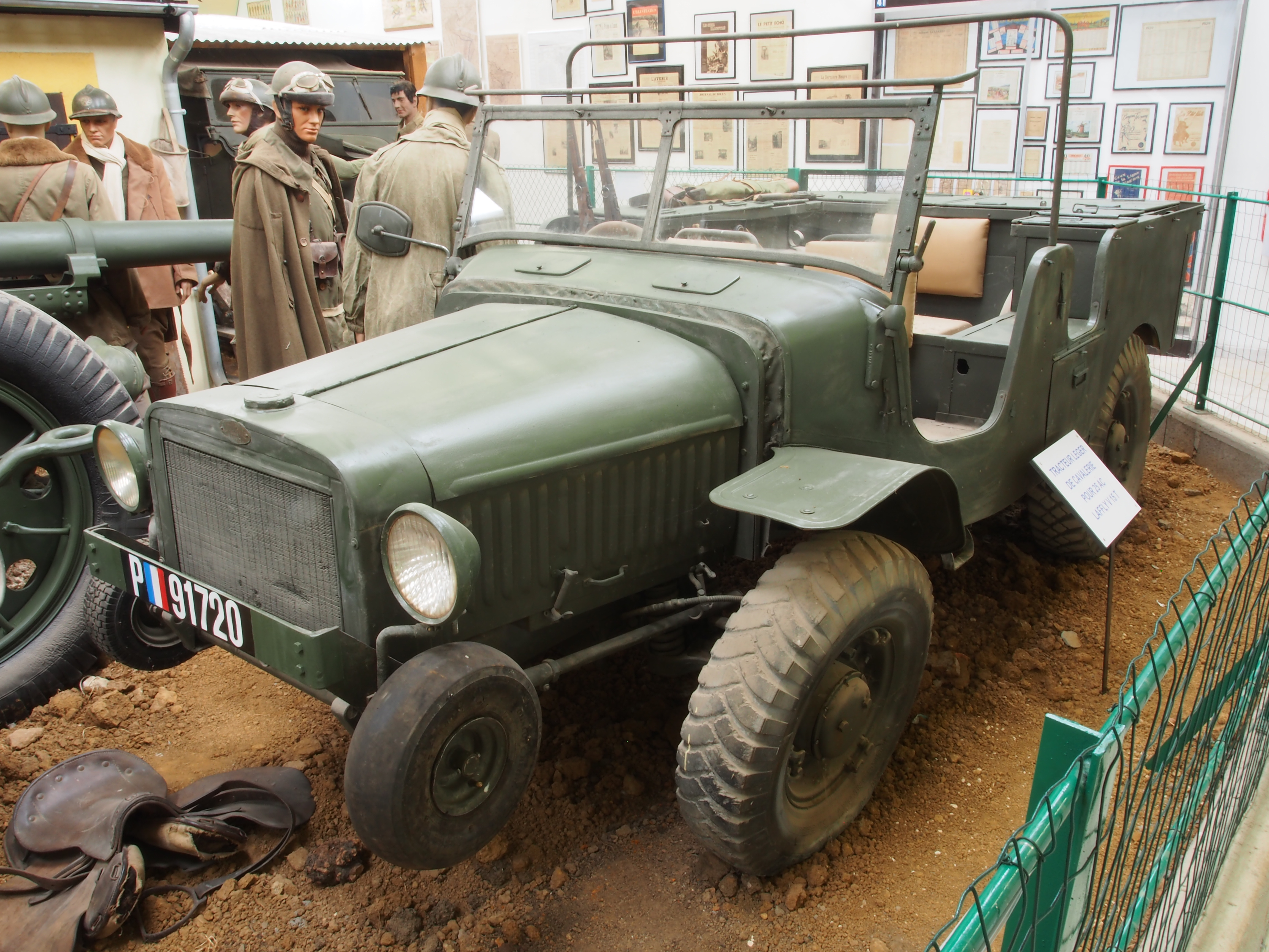 Fort de Fermont and its museum - Laffly V15T